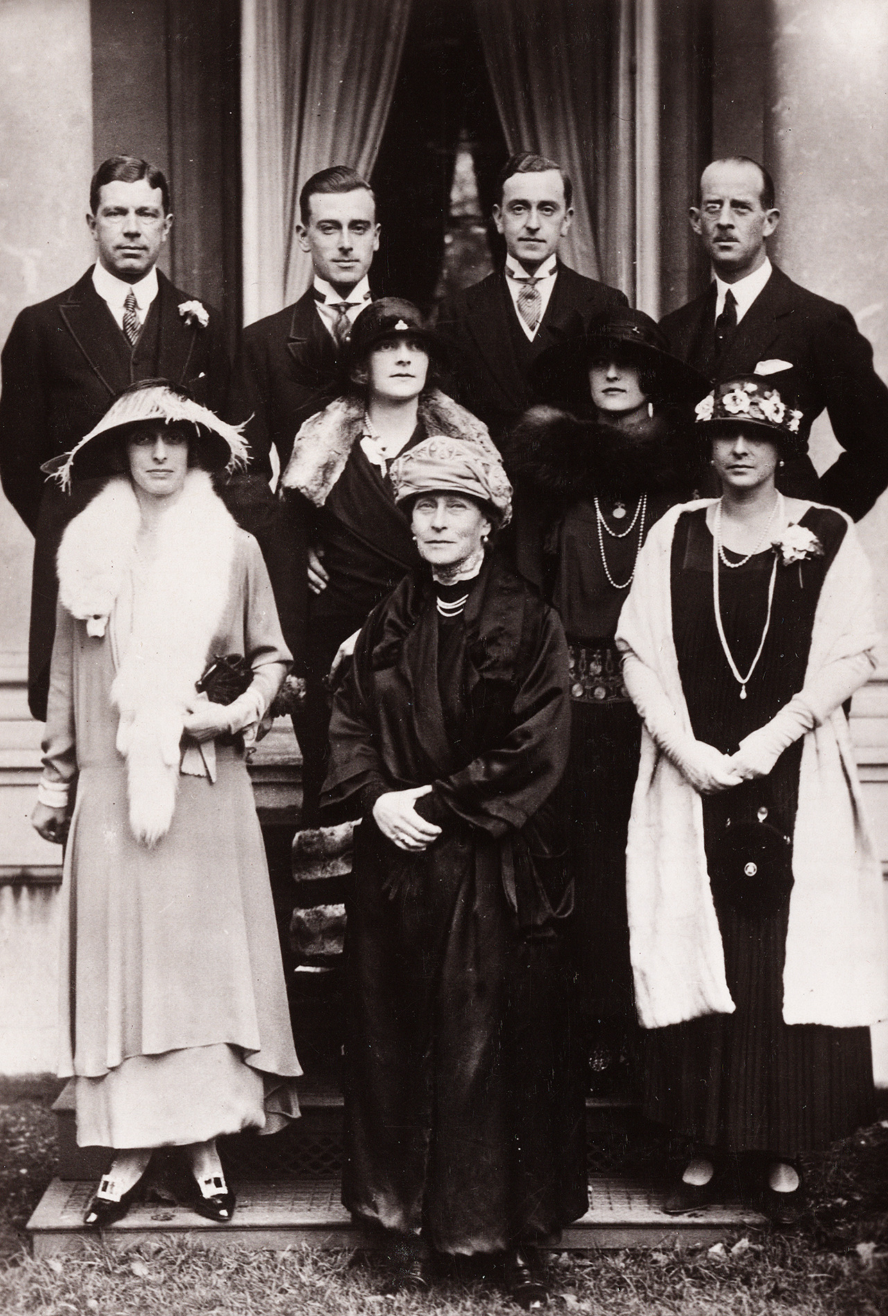 Mountbatten family group; Victoria Mountbatten, Marchioness of Milford Haven, Louise Mountbatten, Queen of Sweden, Gustaf VI Adolf of Sweden, George Mountbatten, 2nd Marquess of Milford Haven, Nadejda Mountbatten, Marchioness of Milford Haven, Princess Alice of Battenberg, Prince Andrew of Greece and Denmark, Louis Mountbatten, 1st Earl Mountbatten of Burma, Edwina Ashley.